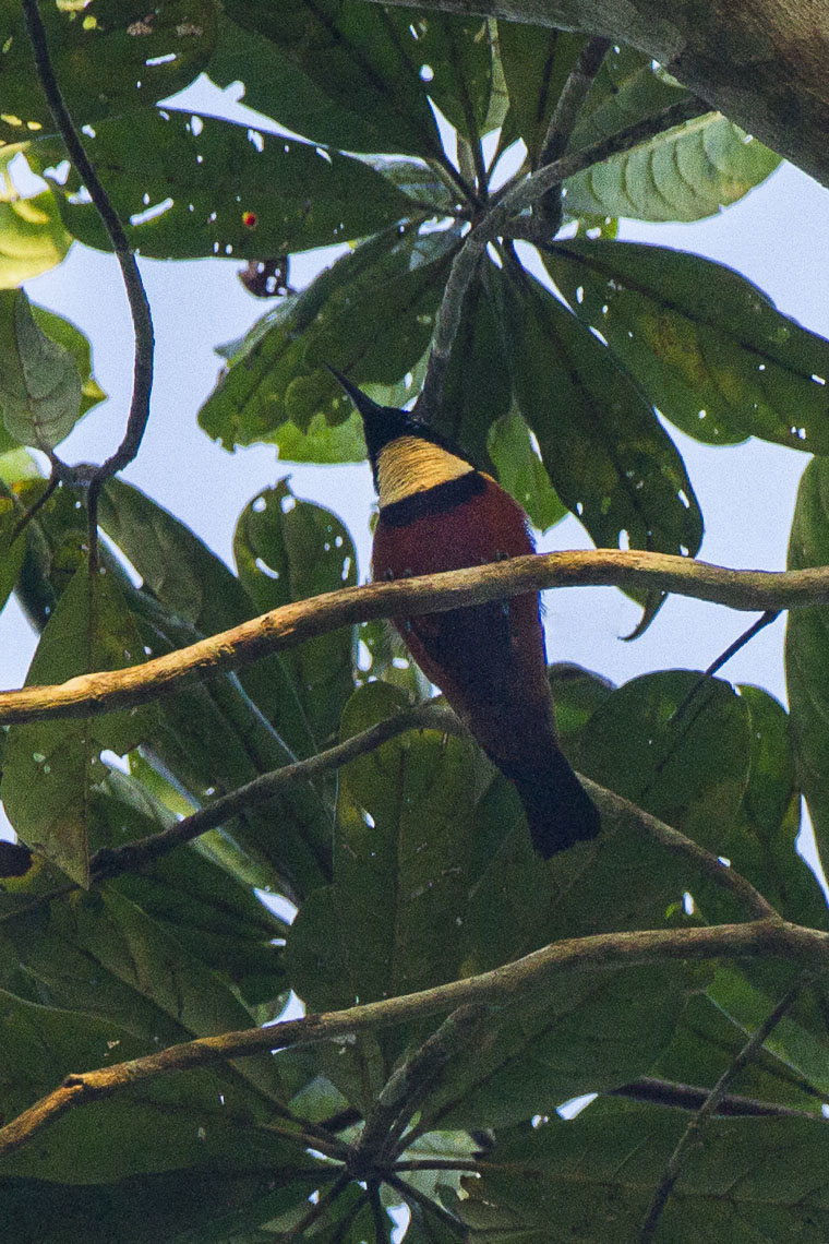 A Buff-throated Sunbird (Chalcomitra adelberti, formerly: Nectarinia adelberti) in the Kakum National Park (Ghana)